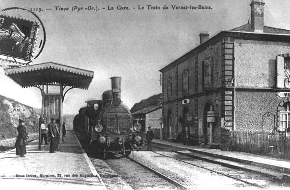 Ancien postcard depicting the train station of Vinça, in the Pirenées Orientales in France